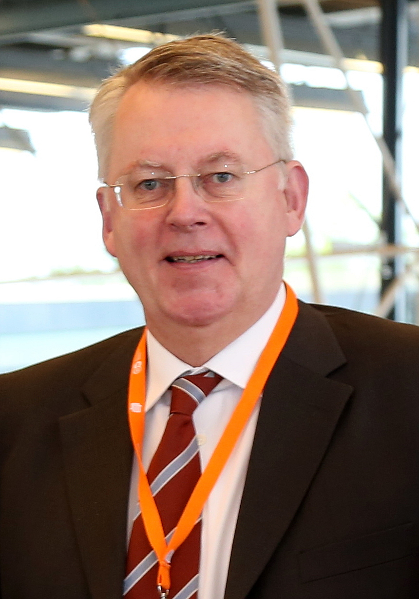 f.l.t.r.: Tsolmon Bolor (Ambassador of Mongolia), Günter Nooke (Commissioner for Africa of the Federal Ministry for Economic Cooperation and Development (BMZ), Lundeg Purevsuren (Minister for Foreign Affairs of Mongolia), Jan F. Kallmorgen (Partner, Global Practice, Interel and Co-Founder Atlantic Initiative, Germany), Peter Limbourg (Director General, Deutsche Welle, Germany) and Dr. Amrita Cheema (Anchor and Journalist, DW, Germany) © DW/M. Magunia